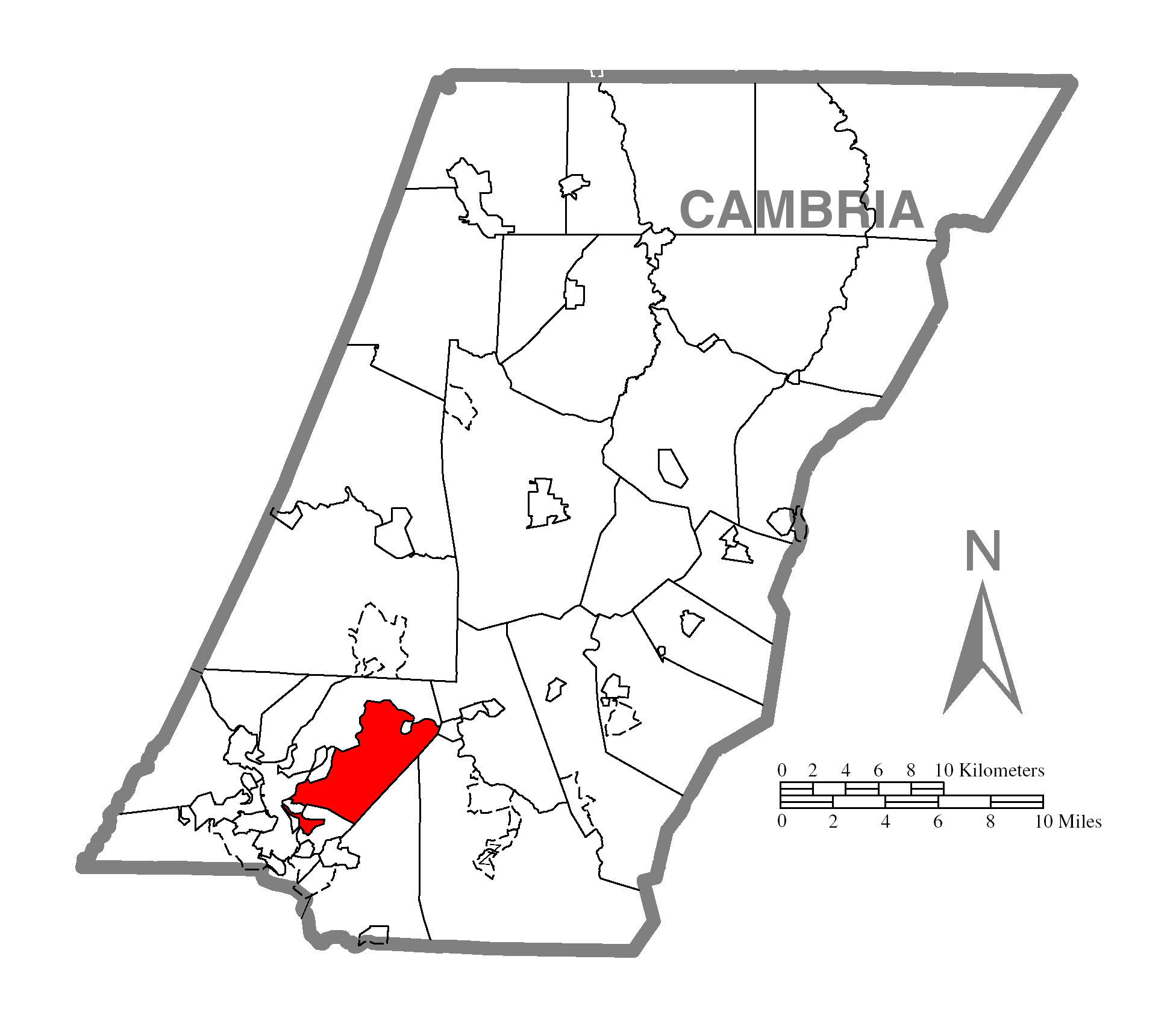 A map of Cambria County showing Conemaugh Township, Pennsylvania (alternate) highlighted on the map.